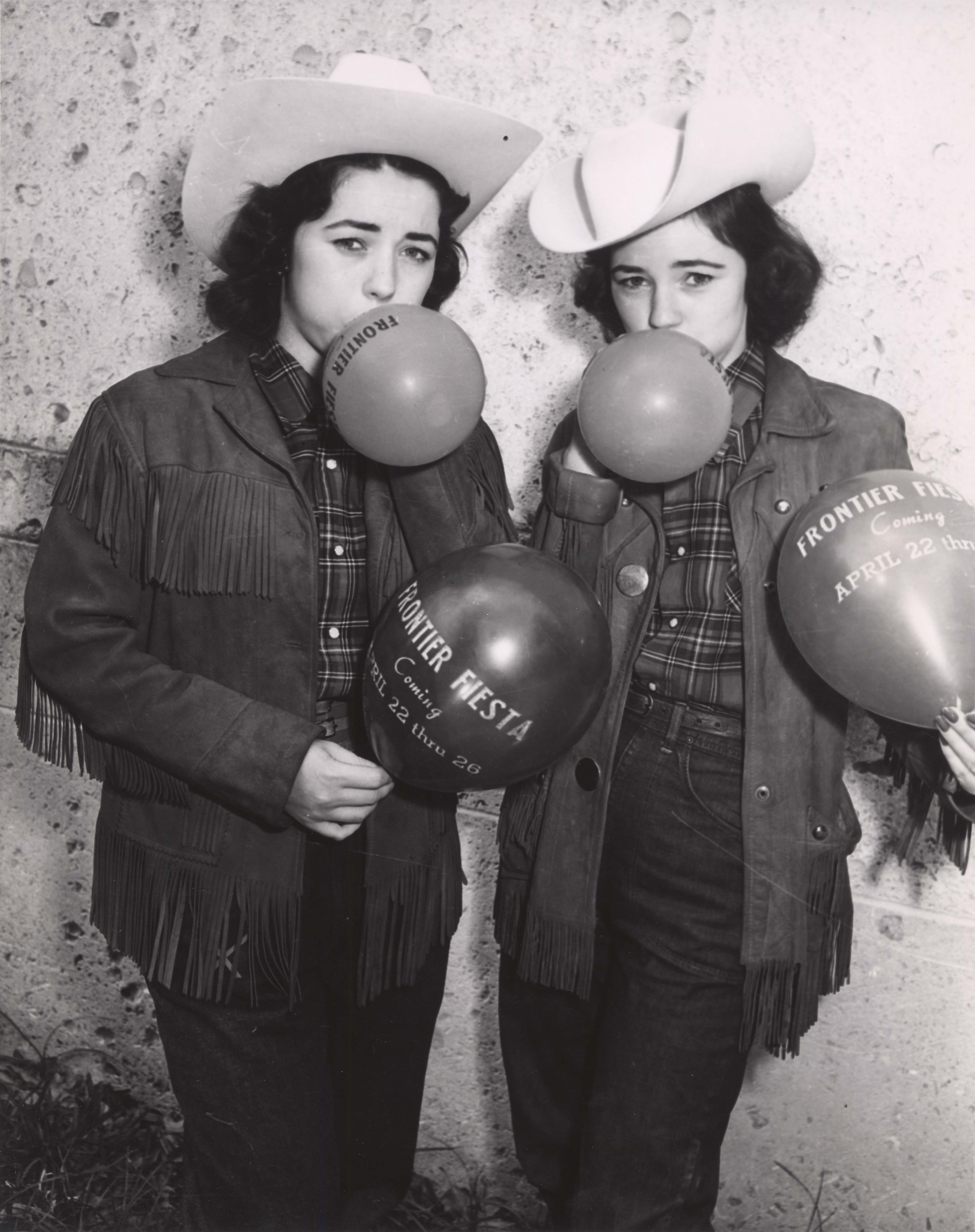 Two female students in costume blowing up baloons at Frontier Fiesta